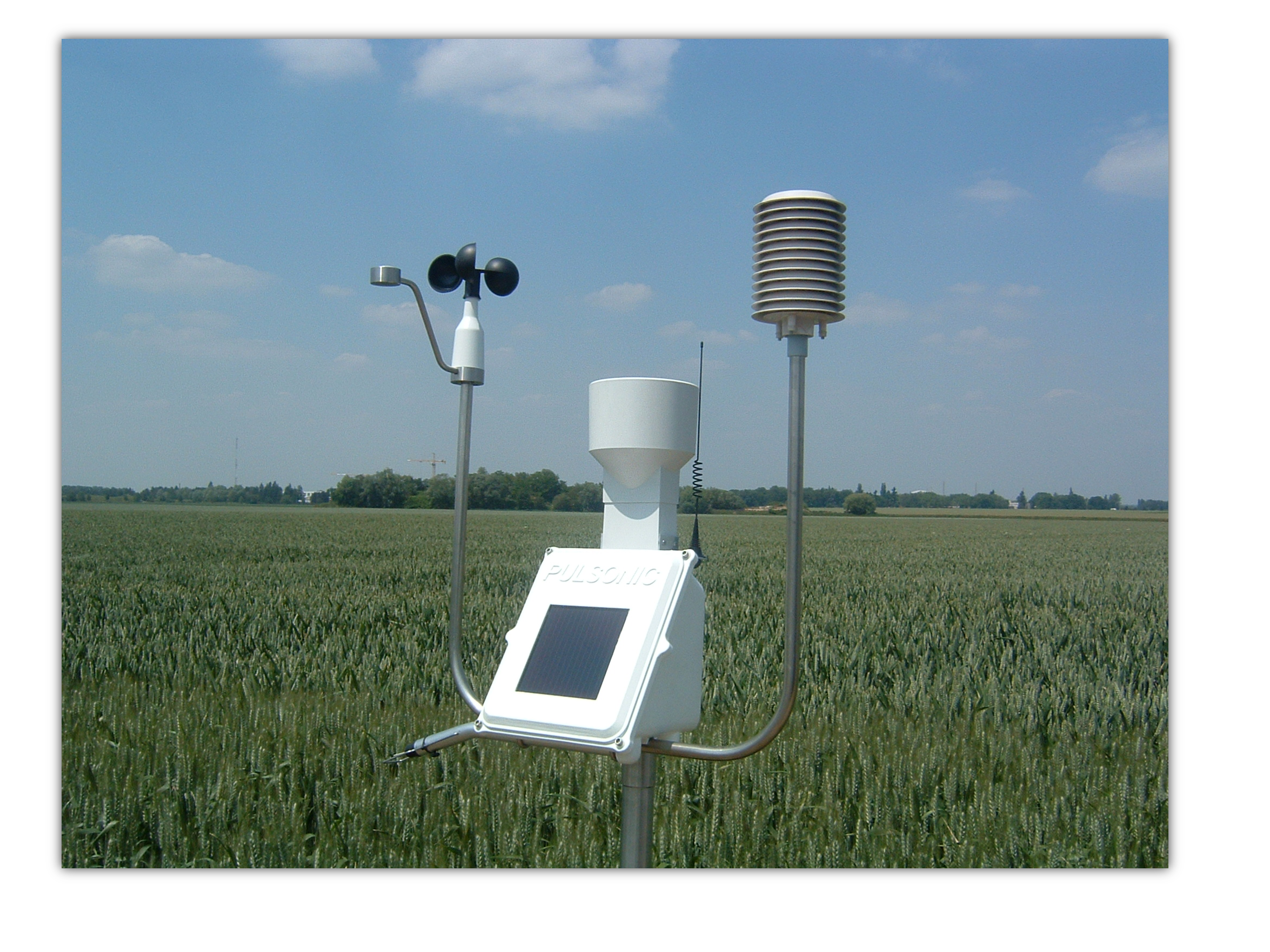 automatic weather station